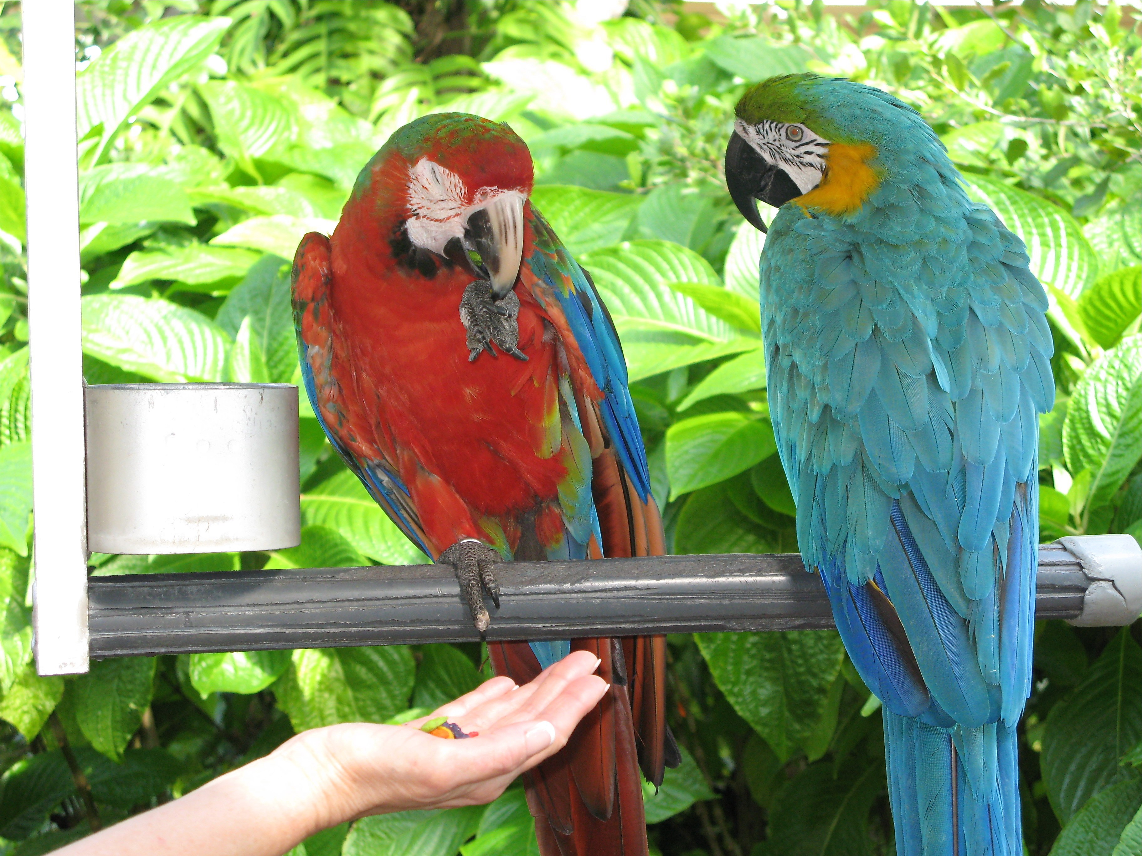 An Ara hybrid macaw on the left and a Blue-and-yellow Macaw (Ara ararauna) on the right. Photographed at Jungle Island, Miami, USA.